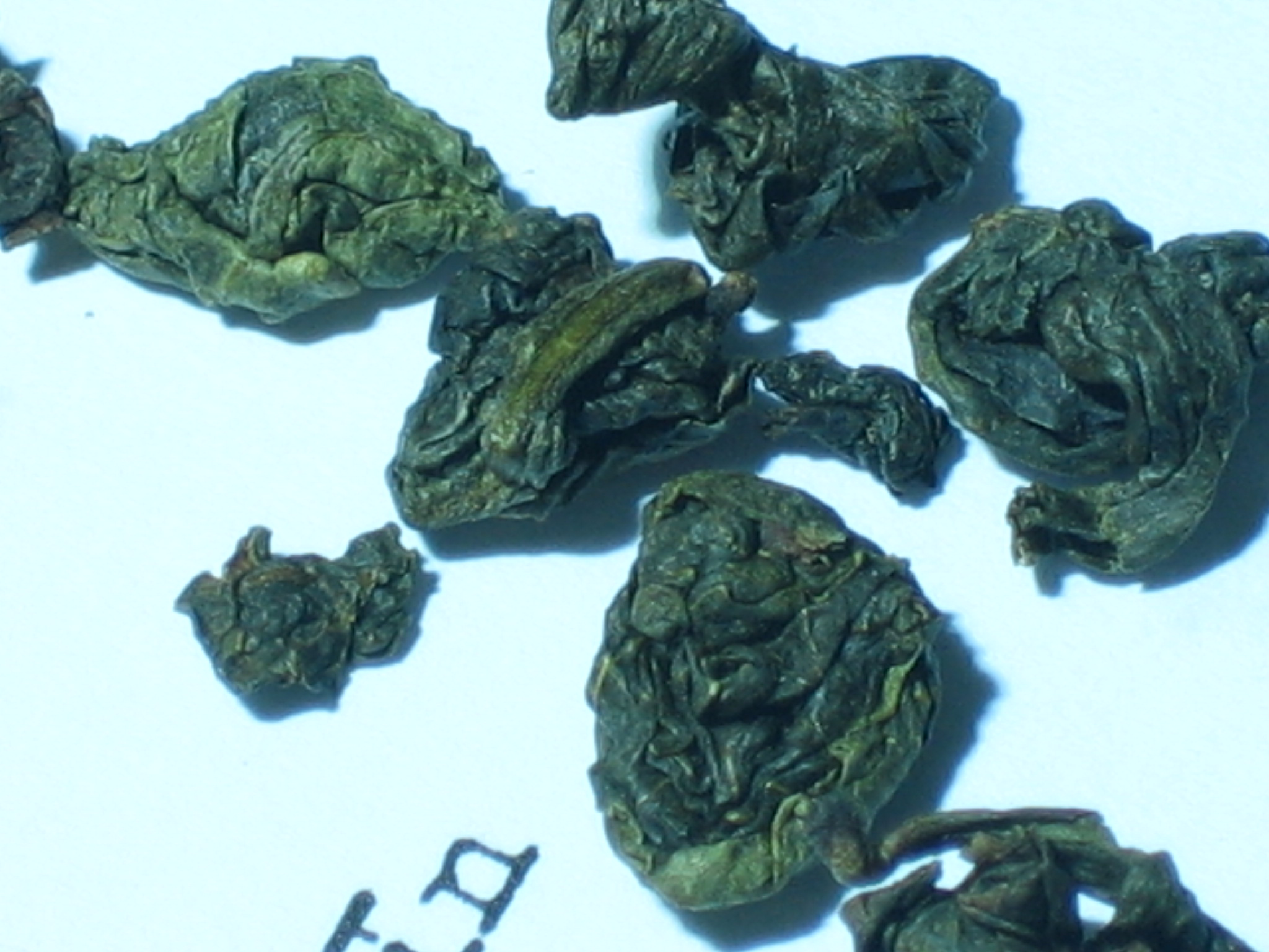 Tin Kuan Yin leaves at a sheet of paper